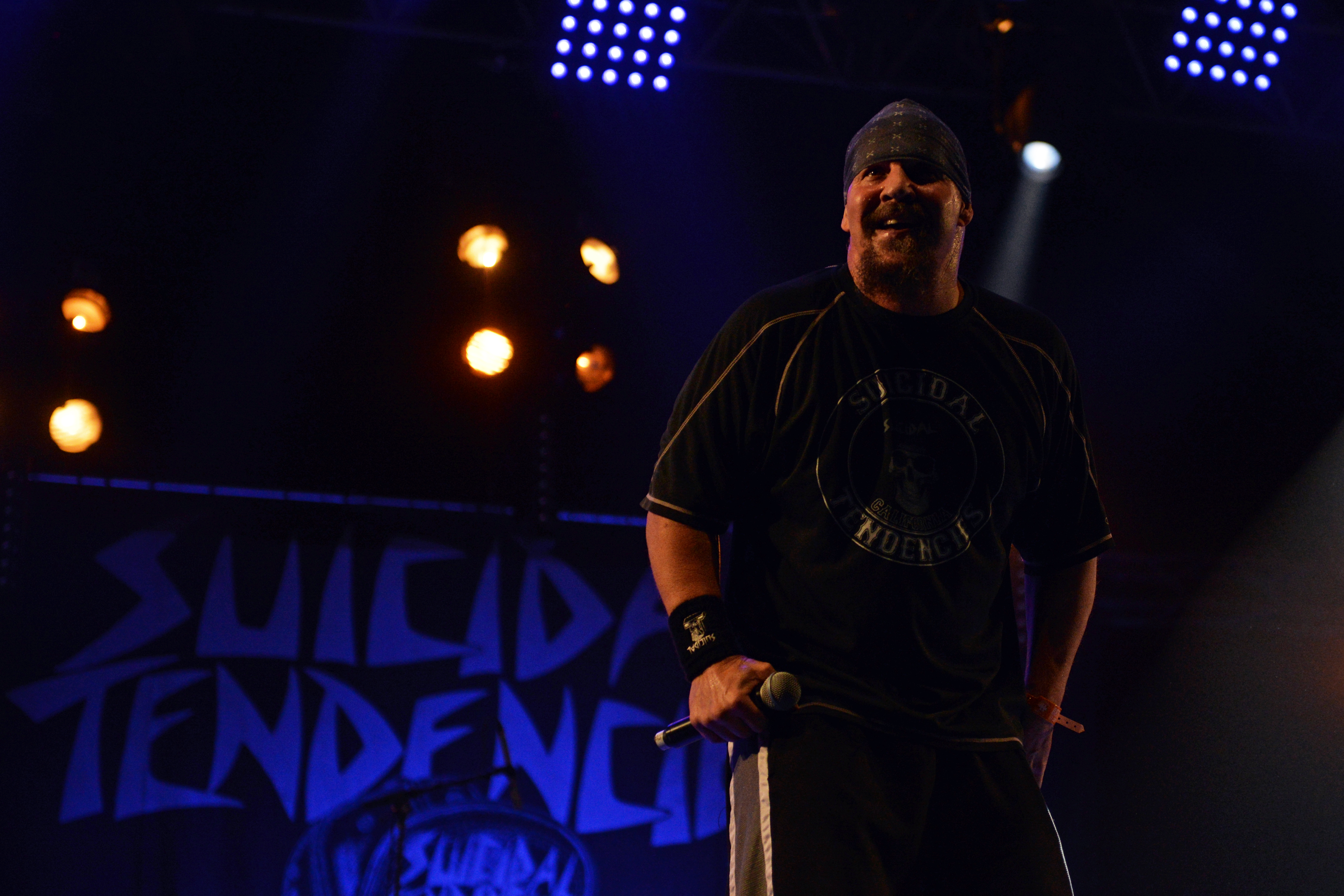 Suicidal Tendencies at Hellfest 2017, France.